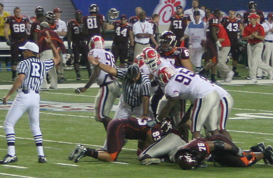 Peach Bowl fumble aftermath.